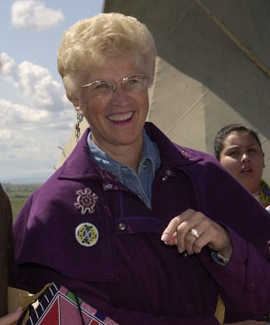 "Dedication ceremonies for the new Indian Memorial at Little Bighorn Battlefield National Monument in Montana, with Secretary Gale Norton and Montana Governor Judy Martz, far right, among the political dignitaries participating"